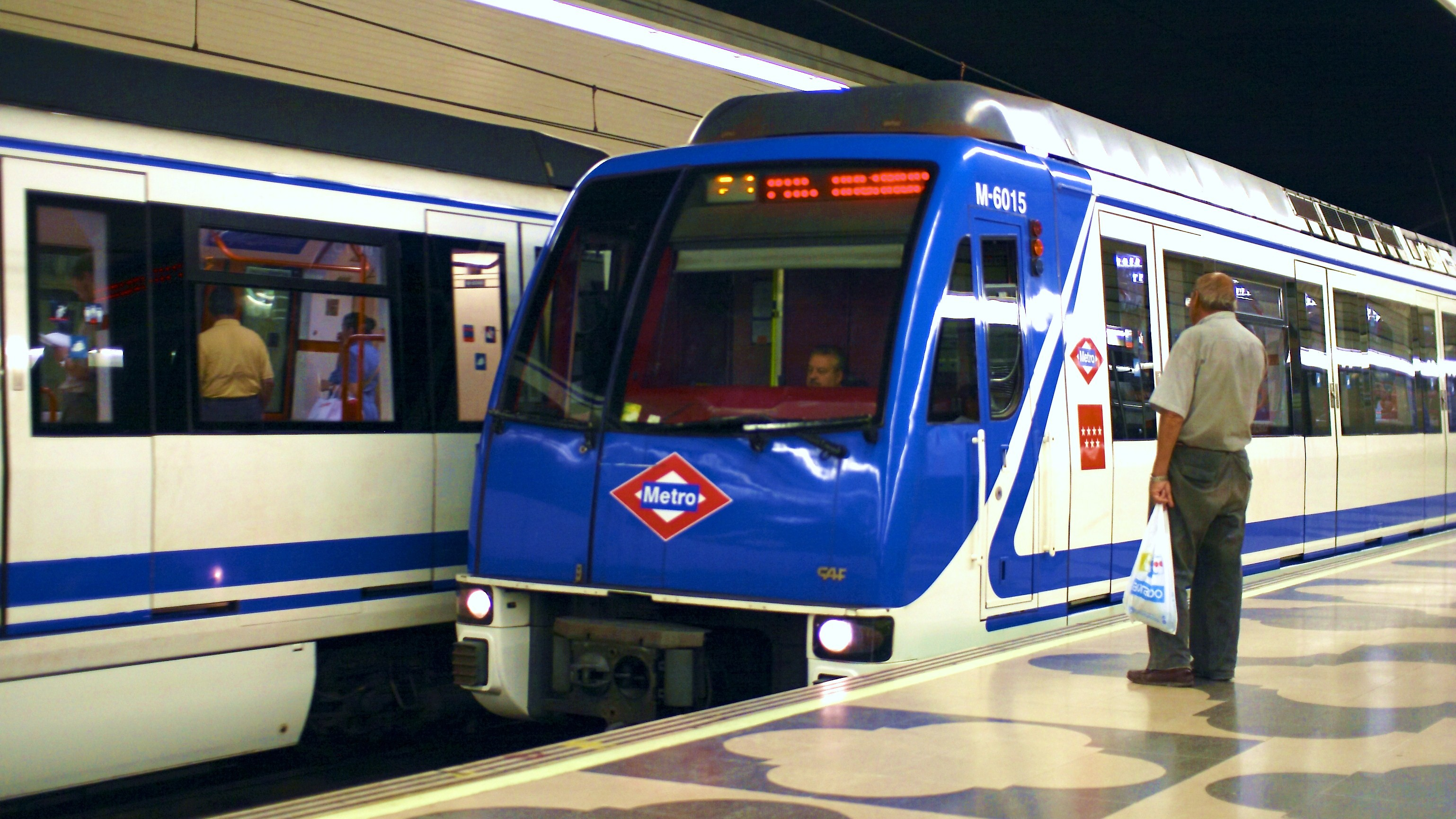 Madrid Metro, Concha Espina station.